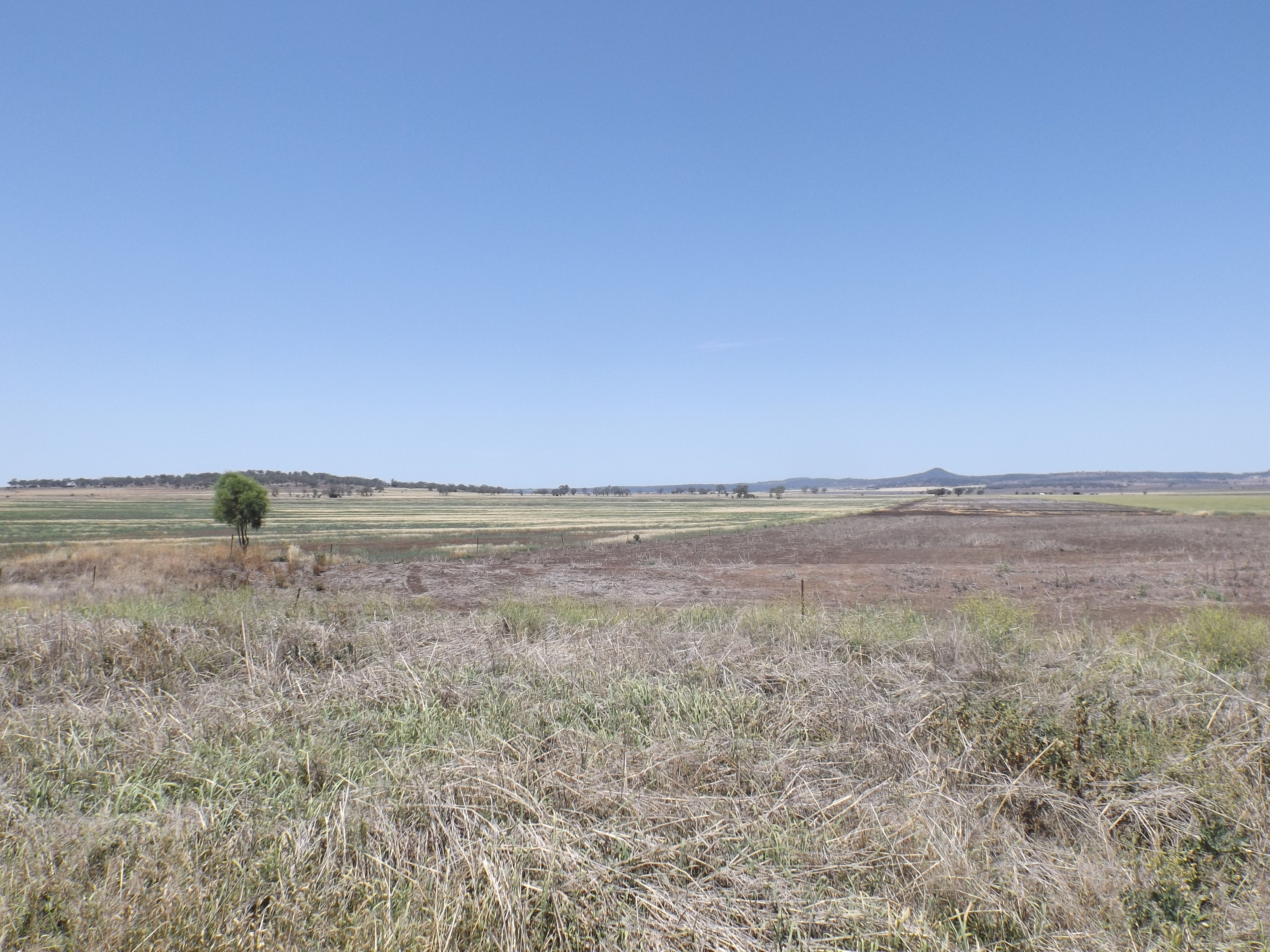 Photo of fields at Motley, Queensland, Australia.